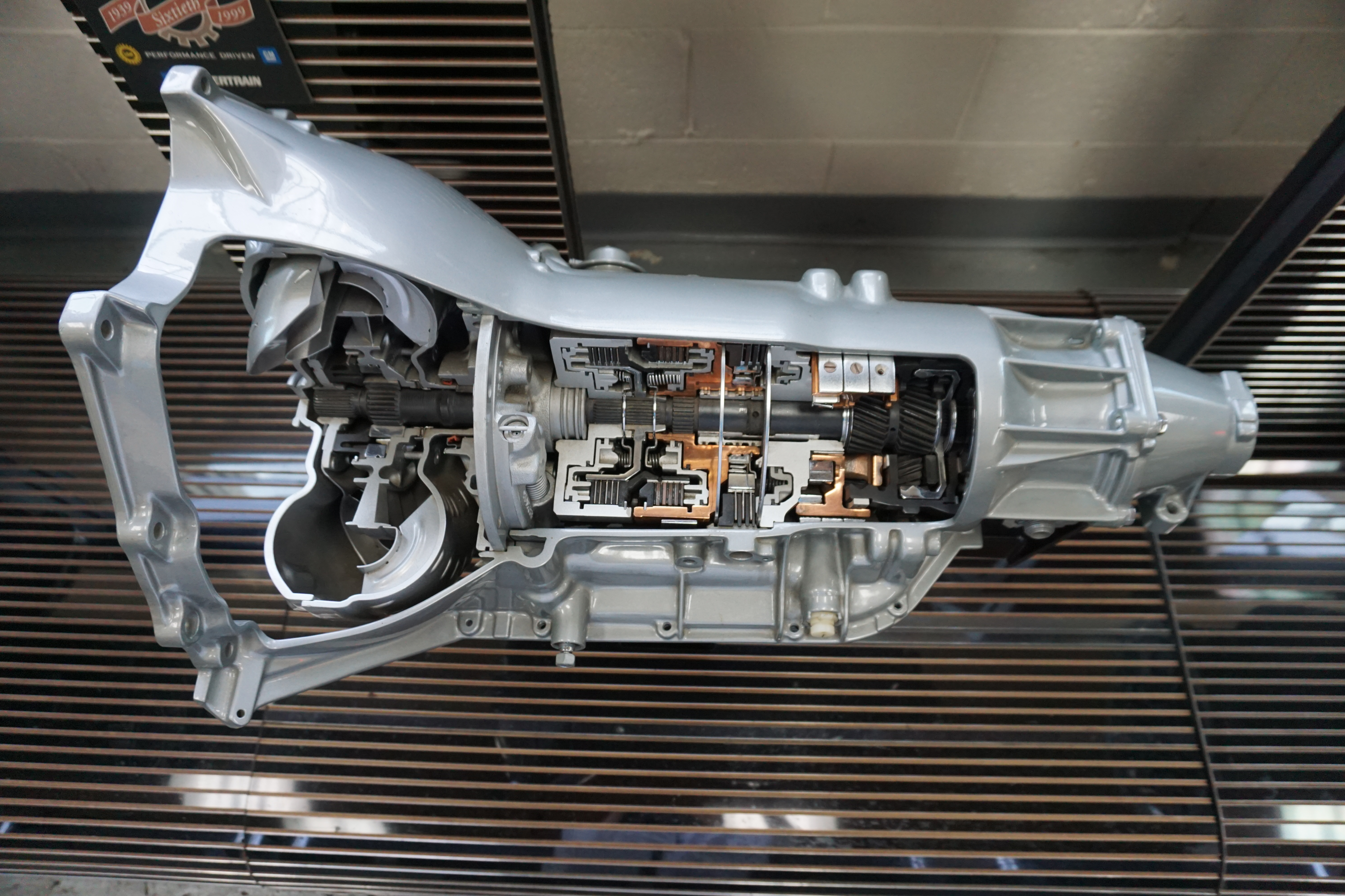 A 1963-95 Hydra-Matic 3L80 transmission at the Ypsilanti Automotive Heritage Museum in Ypsilanti, Michigan (United States).